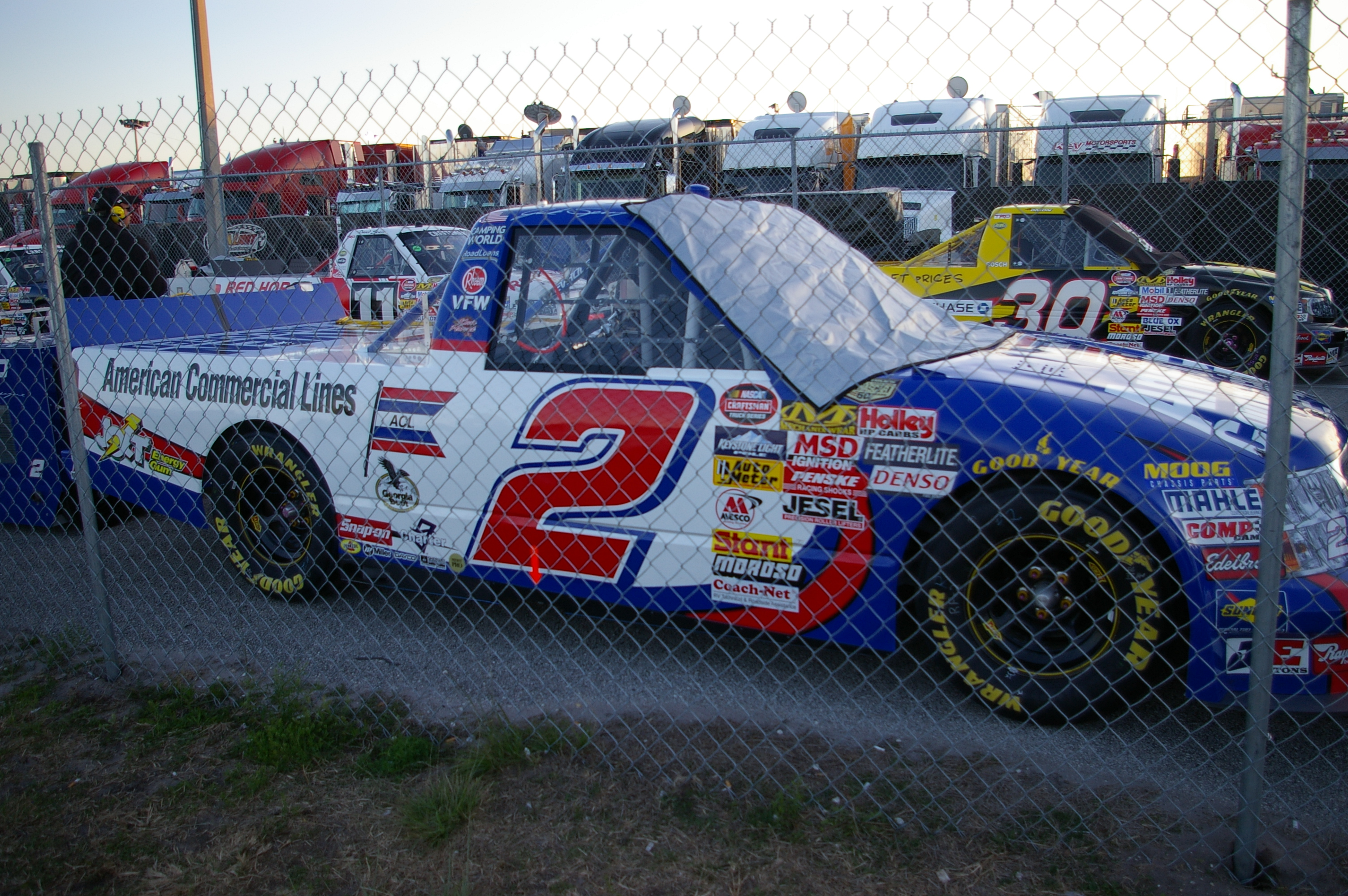 Craftsman Truck Series trucks lined up prior to qualifying on Thursday night.